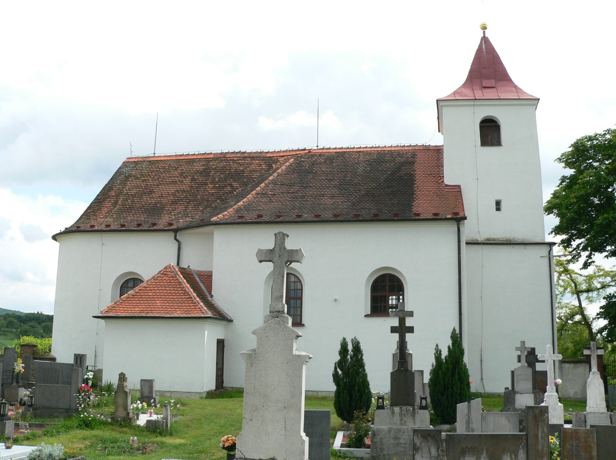 Church in Újezd u Černé Hory, viewed from a cemetery.